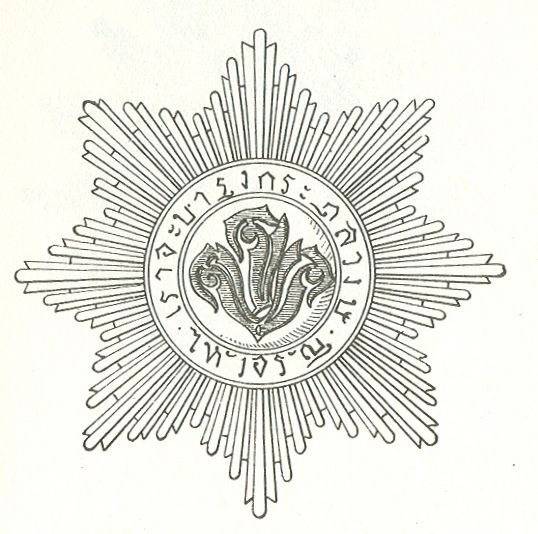 Star IInd rank Ist Class Order of Chula Chom Klao